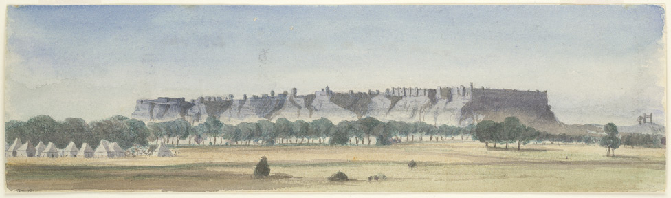 Water-colour painting of Gwalior Fort in Madhya Pradesh by Stanley Leighton (1837-1901), 10 December 1868. Inscribed on the mount in pencil is: 'Gwalior from the Residency. Thurs. 10 Dec. 1868.' The fortress of Gwalior stands on a long, narrow, rocky outcrop of sandstone which rises 300 feet above the surrounding countryside. The foundation of the fort is very ancient; an inscription within records that a Temple of the Sun was erected in 510, but local legend asserts that it was erected by Suraj Sen who was cured of his leprosy by an ascetic called Gwalior. It has been the contested possession of a succession of rulers including the Rajputs, Mughals, Marathas and the British. During the period of Tonwar Rajput rule between 1398 and 1518, the fortress rose to great prominence. It was later taken by Sindhia, one of the powerful Maratha chiefs, in the mid-18th century and in 1886 was ceded by the British to the dynasty in exchange for Jhansi.